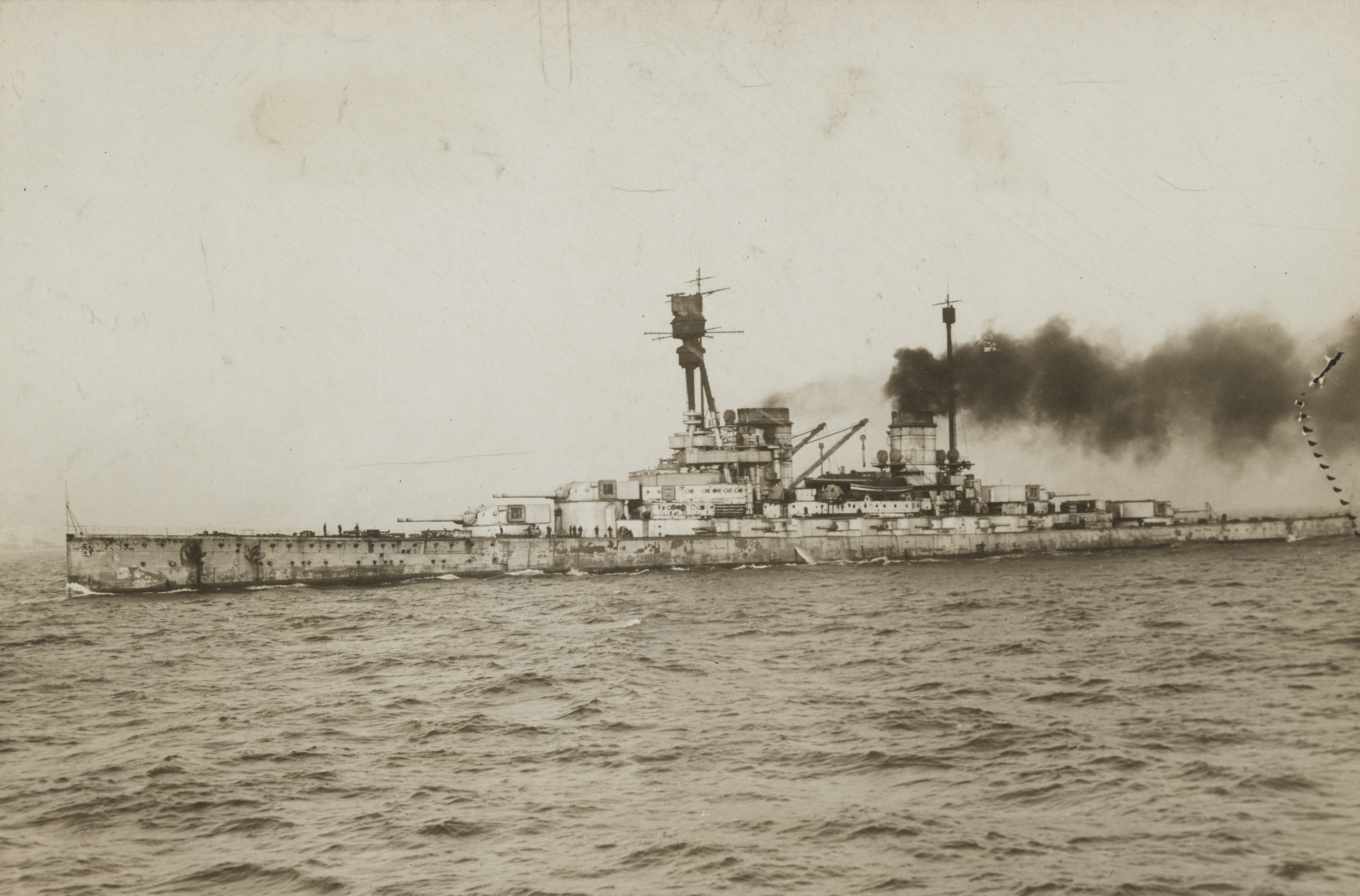 The Surrender of the German High Seas Fleet, November 1918 German Battle Cruiser SMS HINDENBURG.